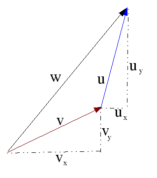 Vetor soma